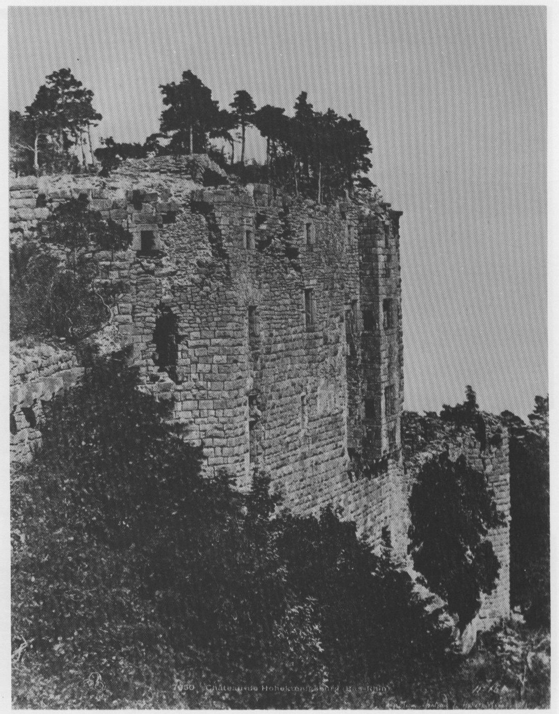 Haut-Koenigsburg_in_1851_made by_Le_Seq